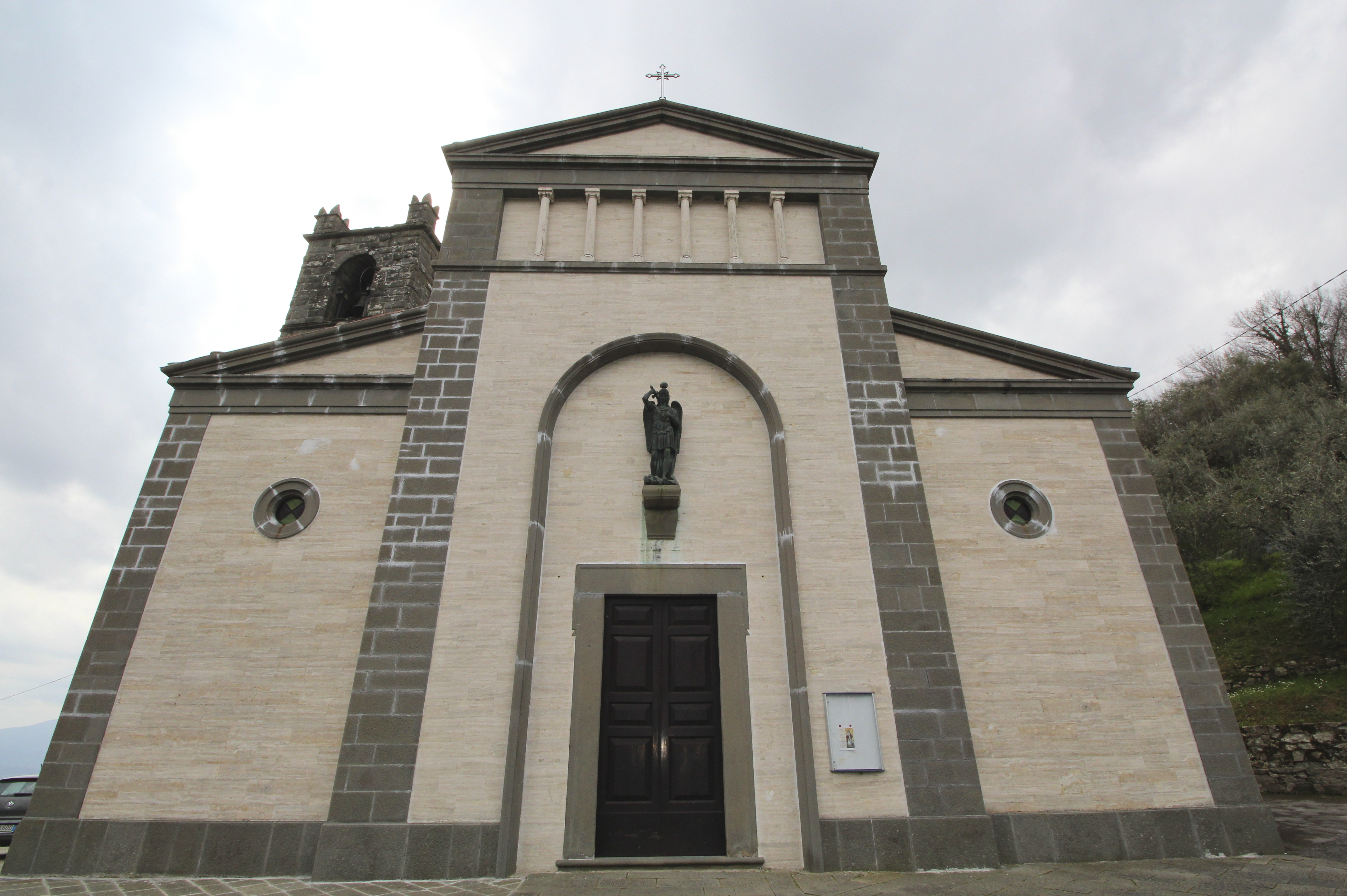 Church San Michele Arcangelo, Matraia, hamlet of Capannori, Province of Lucca, Tuscany, Italy